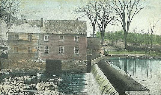 Old Mill & Dam, Oyster River, Durham, NH; from a 1908 postcard.